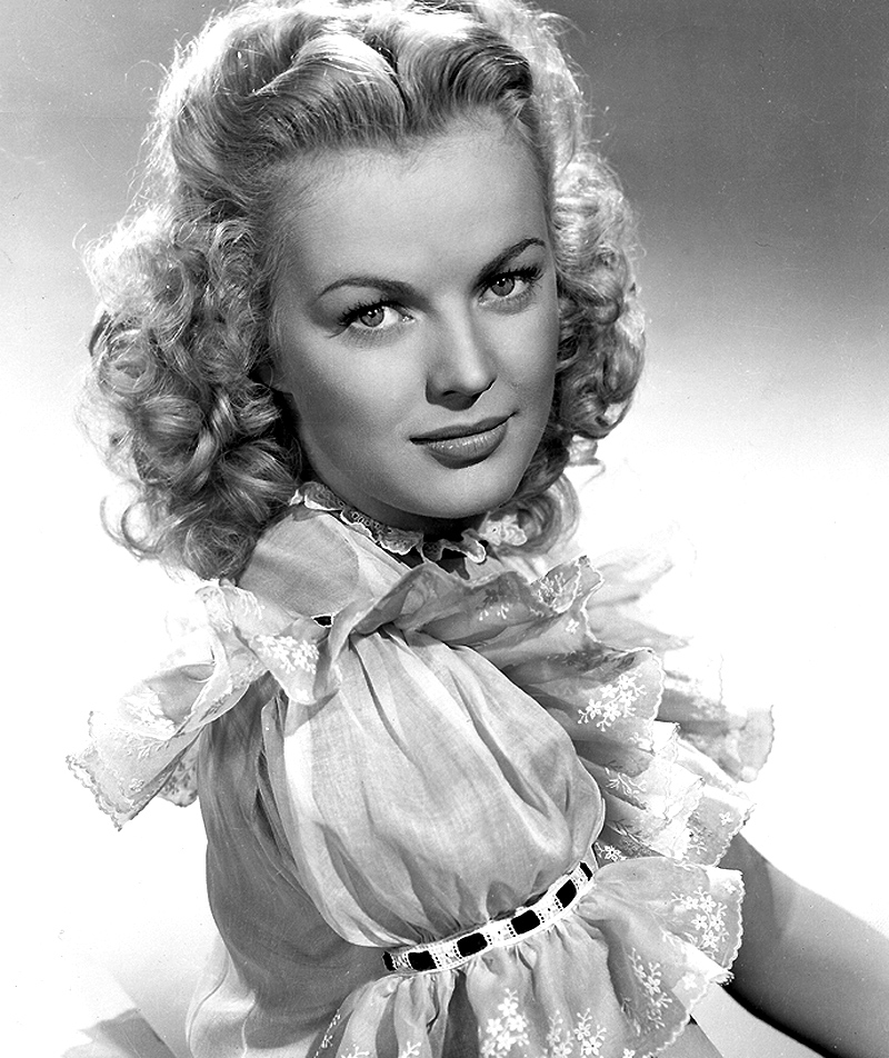 Publicity photo of June Haver in I Wonder Who's Kissing Her Now.